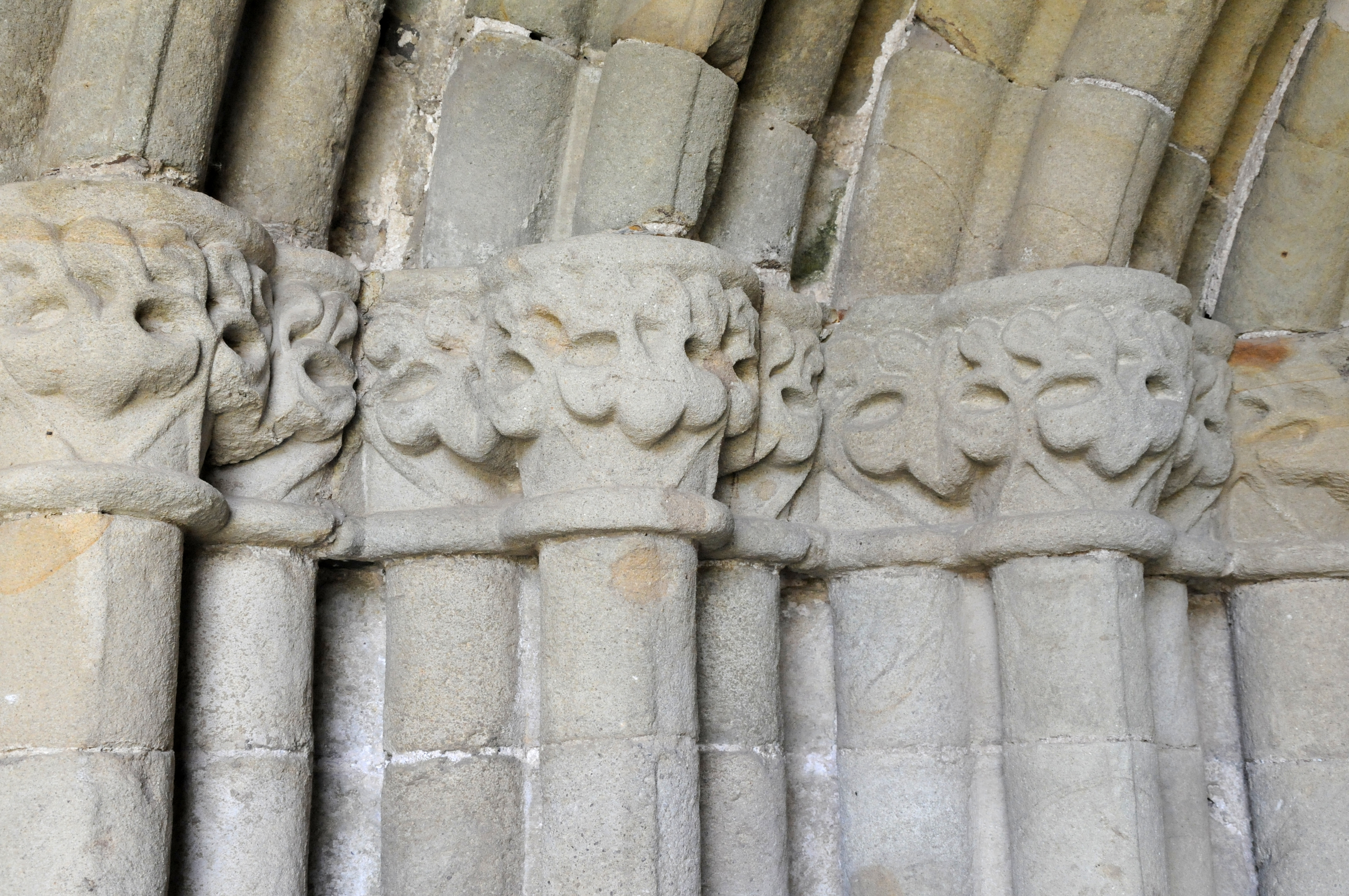 Capitals of engaged columns at SS Mary and Bodfan parish church, Llanaber, Barmouth, Wales